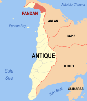 Map of Antique showing the location of Pandan